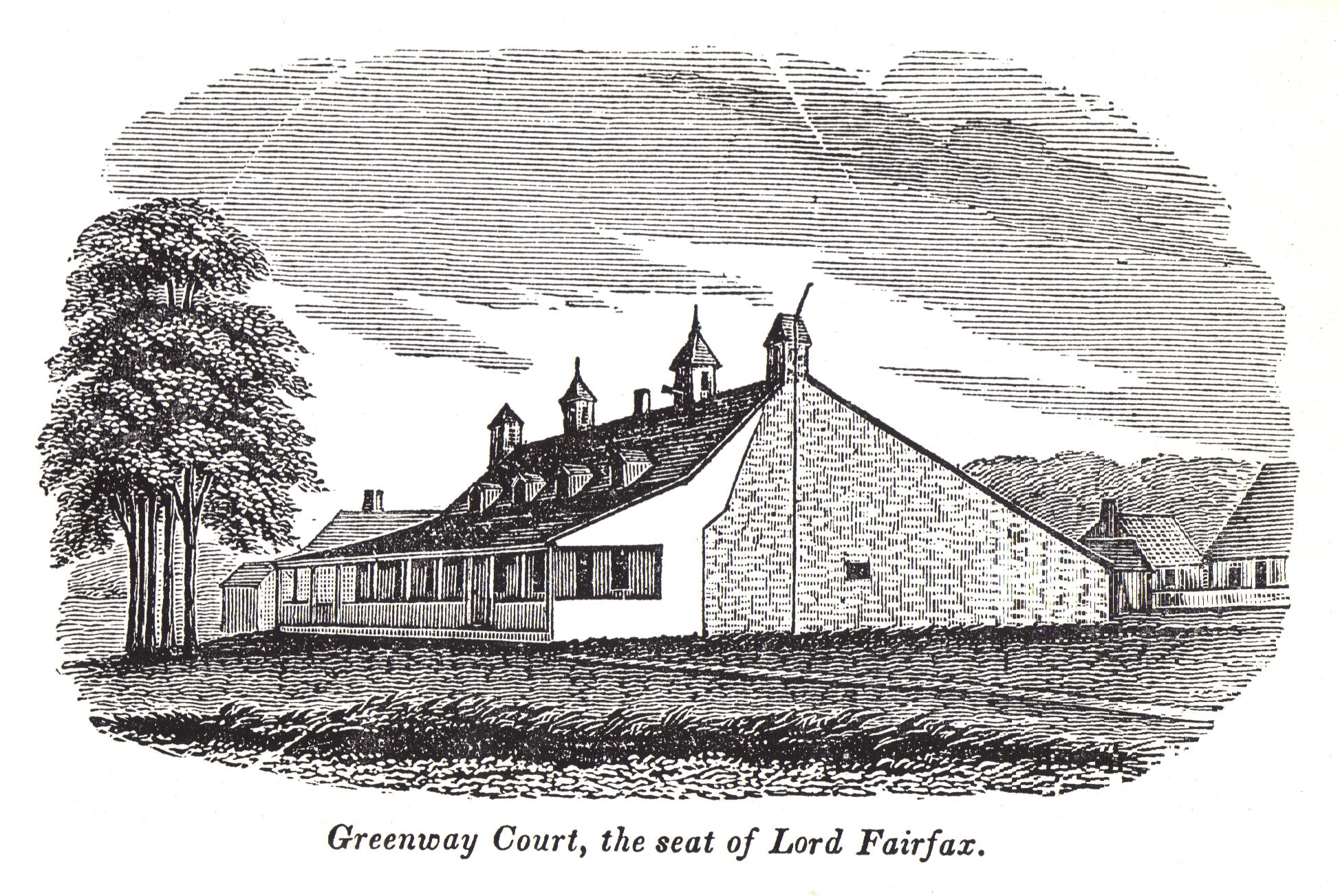 Engraving of "Greenway Court, the seat of Lord [Thomas] Fairfax", near Winchester, Virginia. Source: Howe, Henry (1845), Historical Collections Of Virginia: Containing A Collection Of The Most Interesting Facts, Traditions, Biographical Sketches, Anecdotes, Etc.; Charleston, South Carolina: S. Babcock & Co.